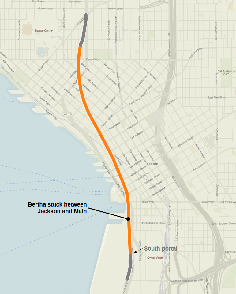 Route map of the Alaskan Way Viaduct replacement tunnel showing location where the tunnel boring machine was stuck on December 6, 2013. Created with Tableau Software. Workbook may be viewed, downloaded and edited at Tableau Public.